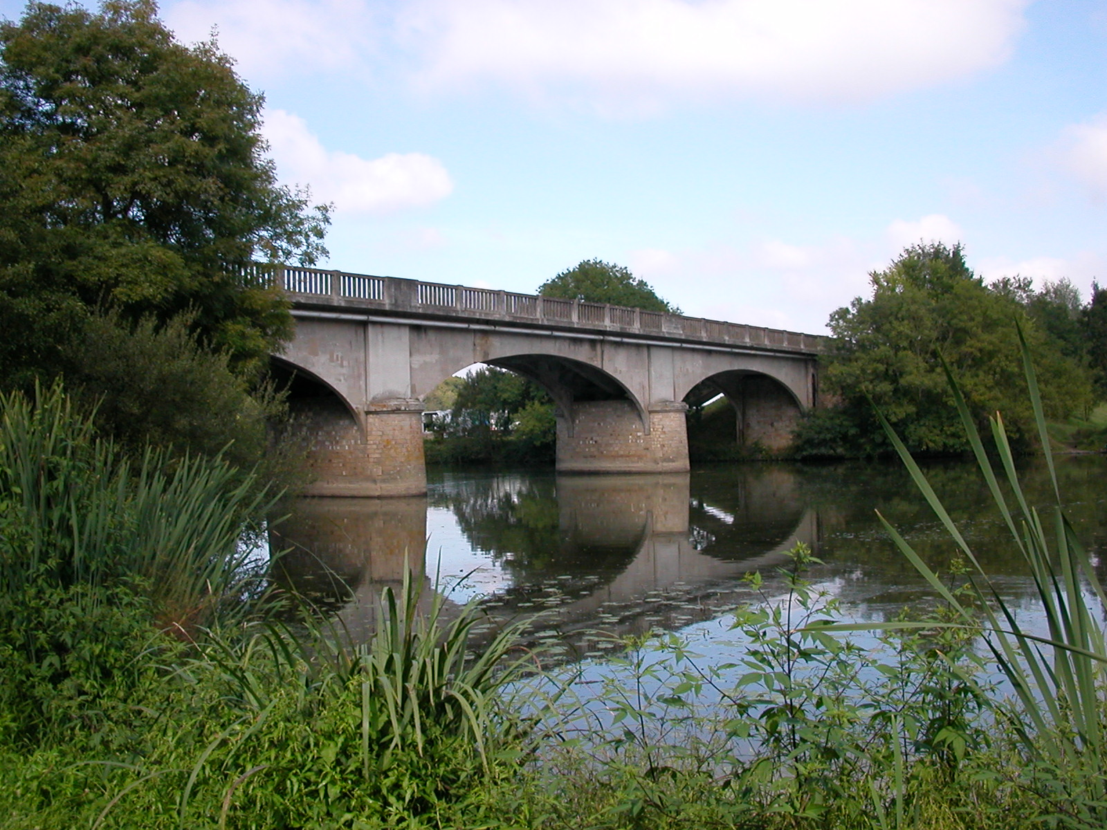 Portillon bridge in Vertou